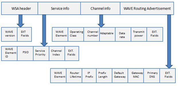 Cabecera WSA